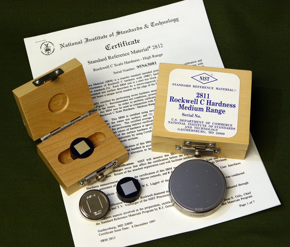 Hardness Standard Reference Materials from NIST